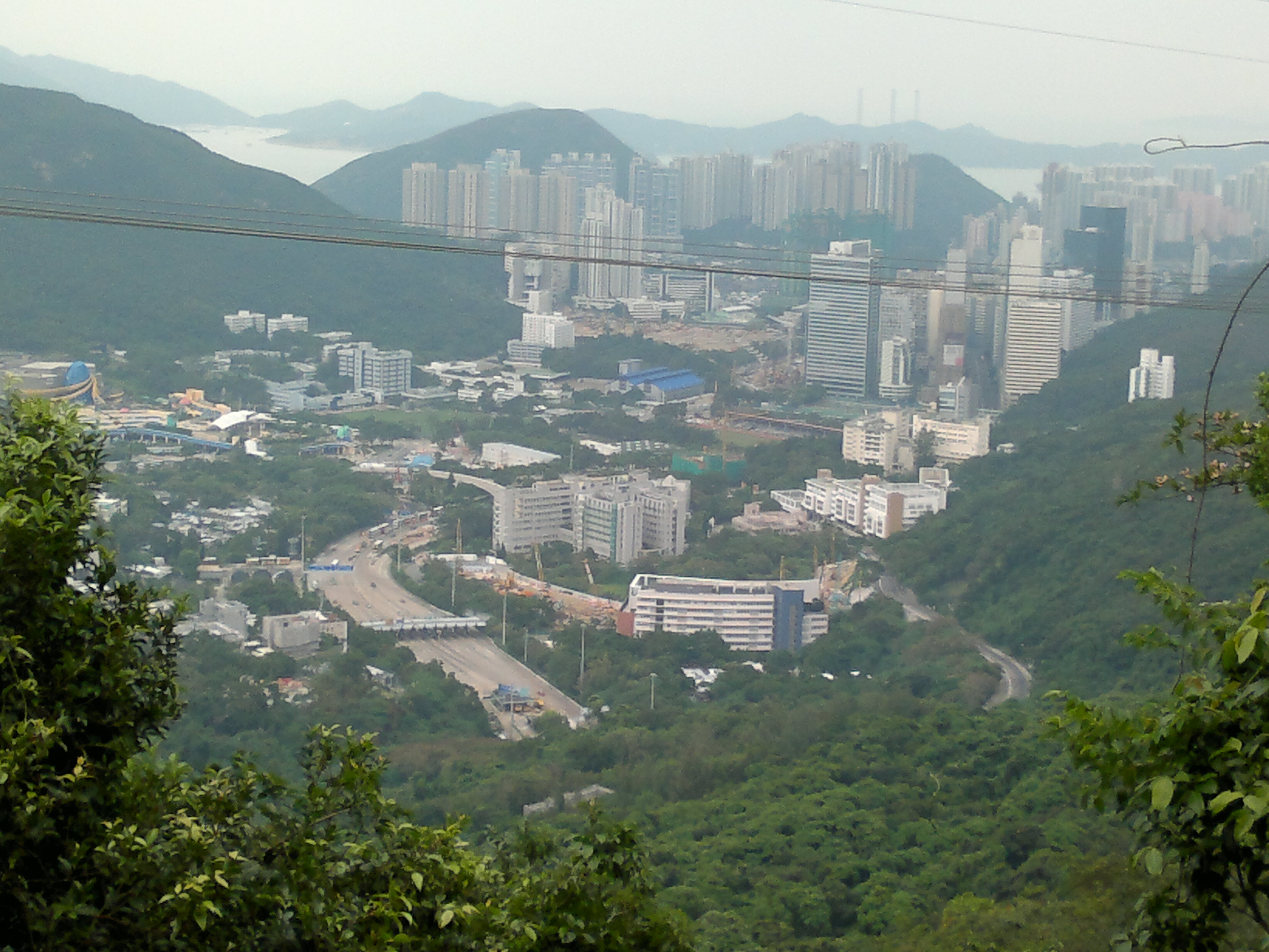 Wong Chuk Hang viewed from Black's Link